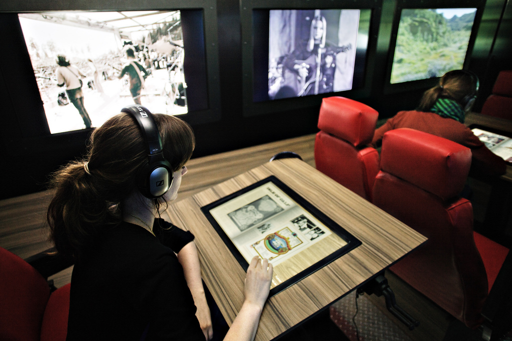 Rockheim - exhibitions.